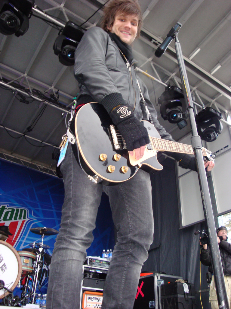 Martin Johnson performing at Mount Snow in VT.